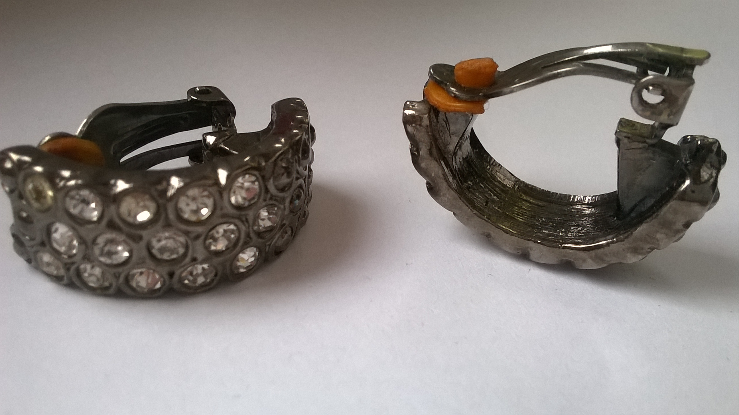 First version of my photo - "klipsy2"